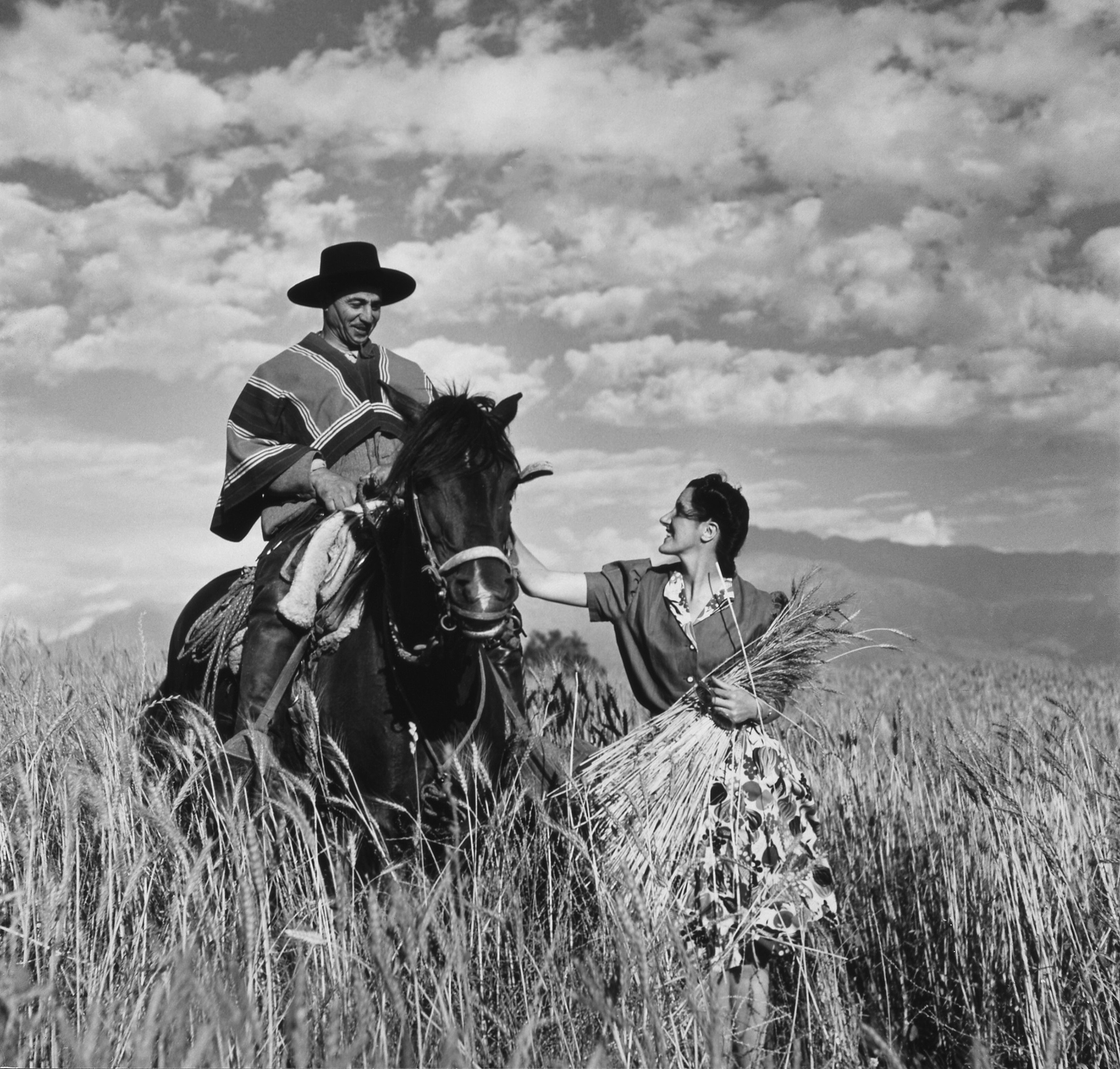 "Señora Maria Vial de Prieto petting gaucho's horse "Prique," in a wheat field in Chile". Note: Although this photo's Library of Congress record says it is a gaucho, it is actually a huaso -- the term "gaucho" is not used in Chile. Foto de la famosa fotógrafa Toni Frissell, titulado "Señora Maria Vial de Prieto acaricia el caballo Pirque de huaso, en un campo de trigo en Chile". Foto de la fotografa Toni Frissell o Antonieta Frissell , (marzo 10, 1907 hasta abril 17, 1988) fue una estadounidense fotógrafo , conocida por su fotografía de moda , de la Segunda Guerra Mundial fotografías y retratos de famosos estadounidenses y europeos, los niños, y las mujeres de todos los ámbitos de vida